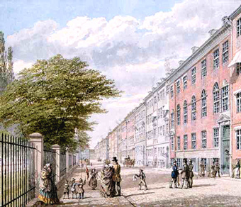 A watercolour by H.G.F. Holm depicting the street Kronprinsessegade in Copenhagen, Denmark.